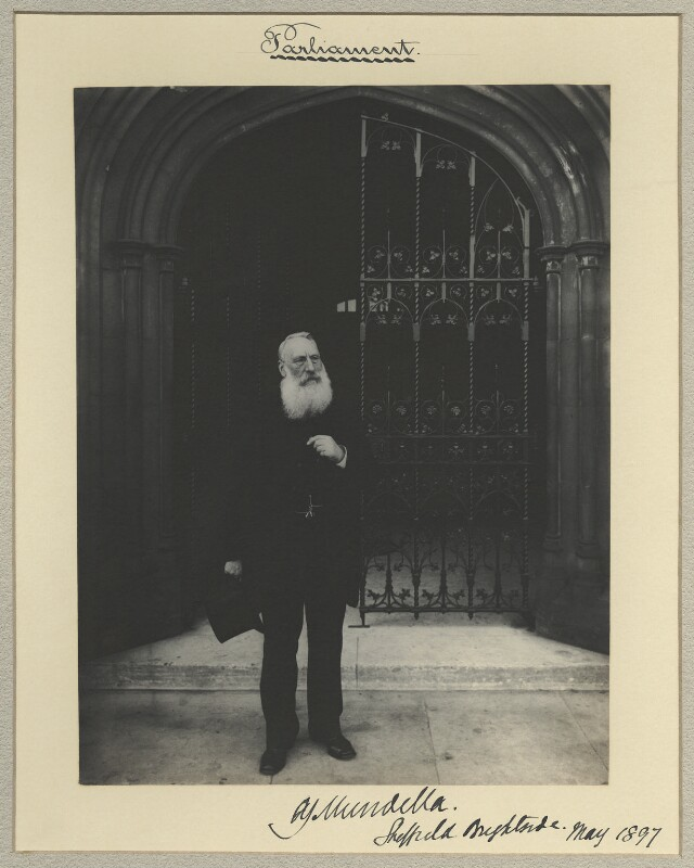 British Liberal politician A J Mundella, 1897